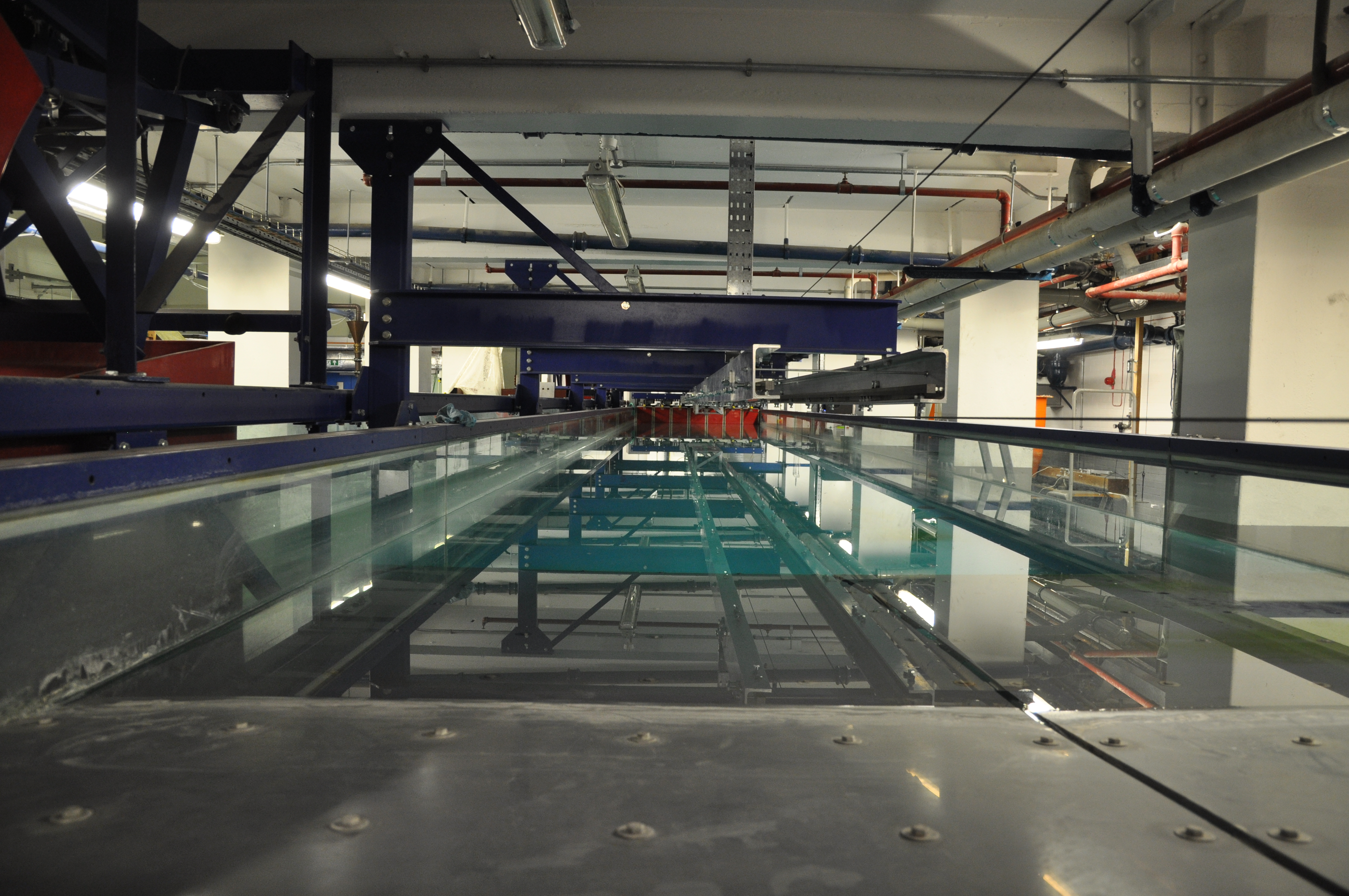 The Ocean Towing Tank at the University College London Fluids Laboratory